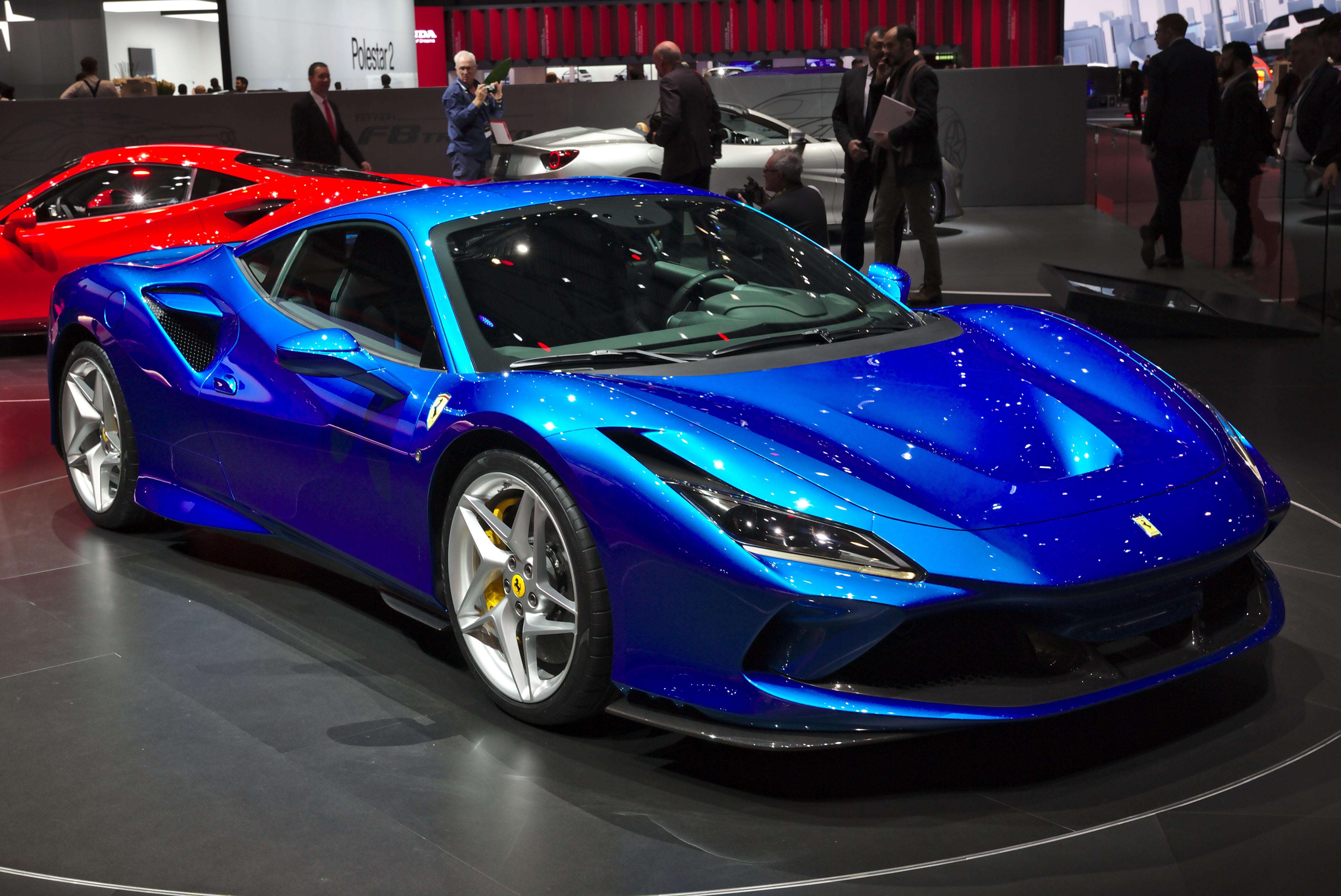 Ferrari F8 Tributo at Geneva Motorshow 2019